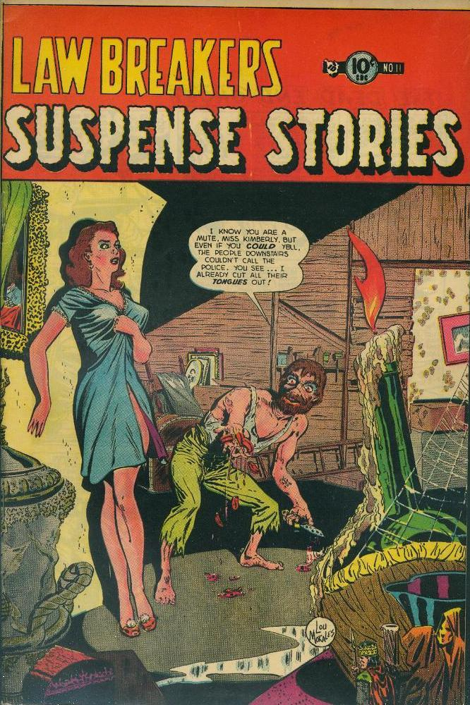 Cover of Lawbreakers Suspense Stories #11, March 1953